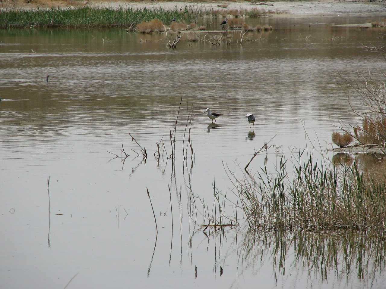 Zayandehrood river before Gavkhoui